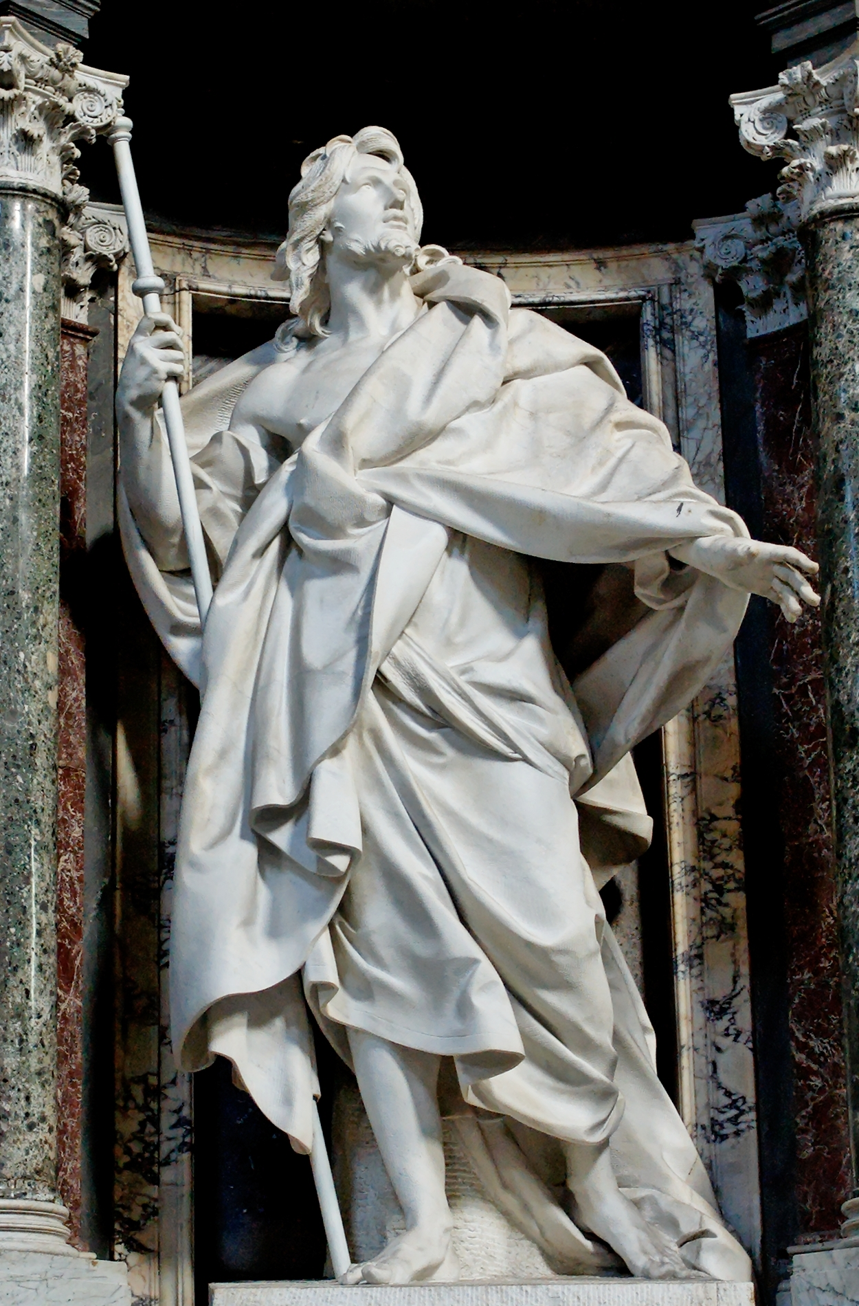 St. James the Great by Camillo Rusconi. Nave of the Basilica of St. John Lateran (Rome).